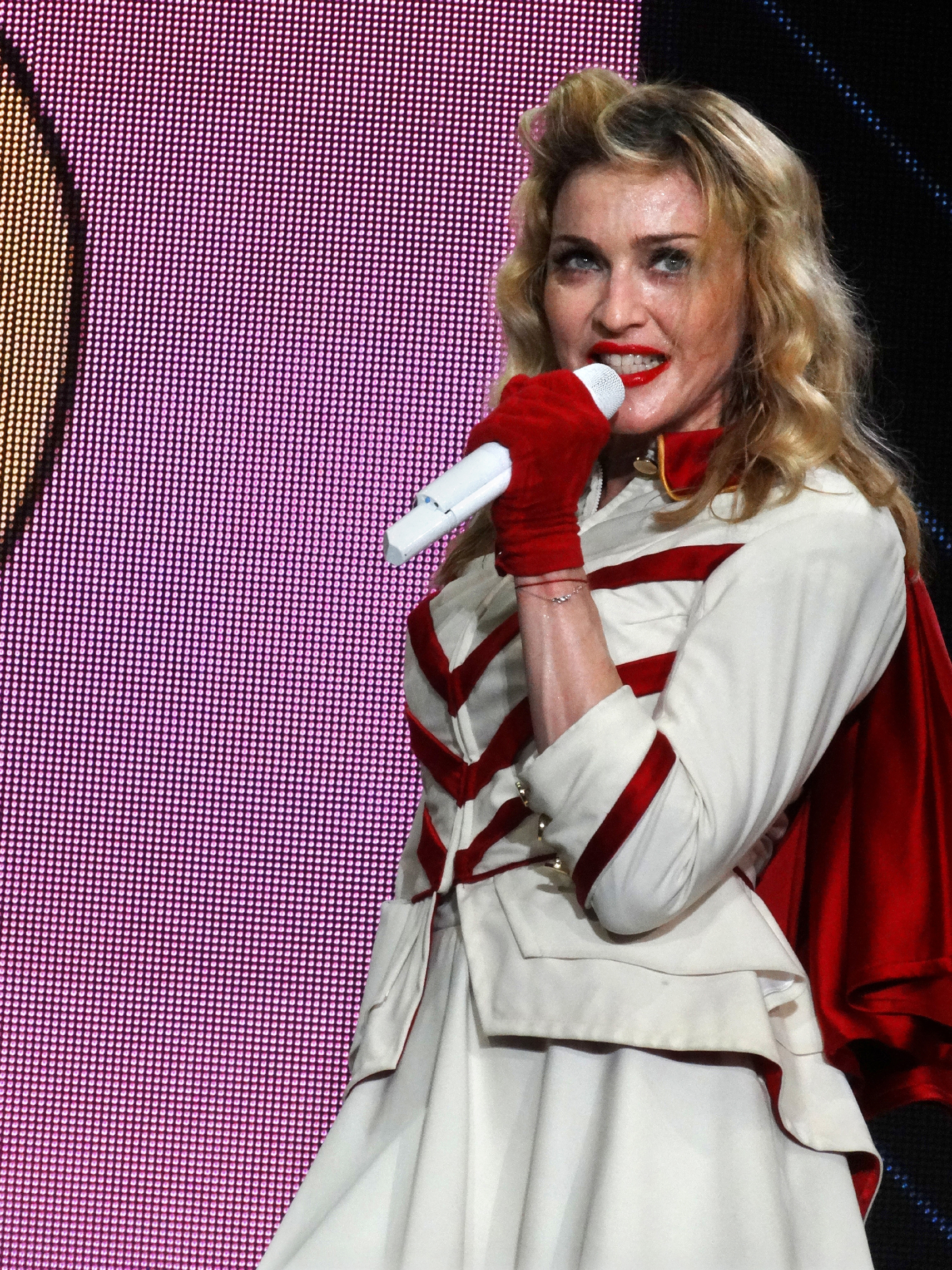 Madonna during her concert in Nice as part of her MDNA Tour on August 21, 2012.